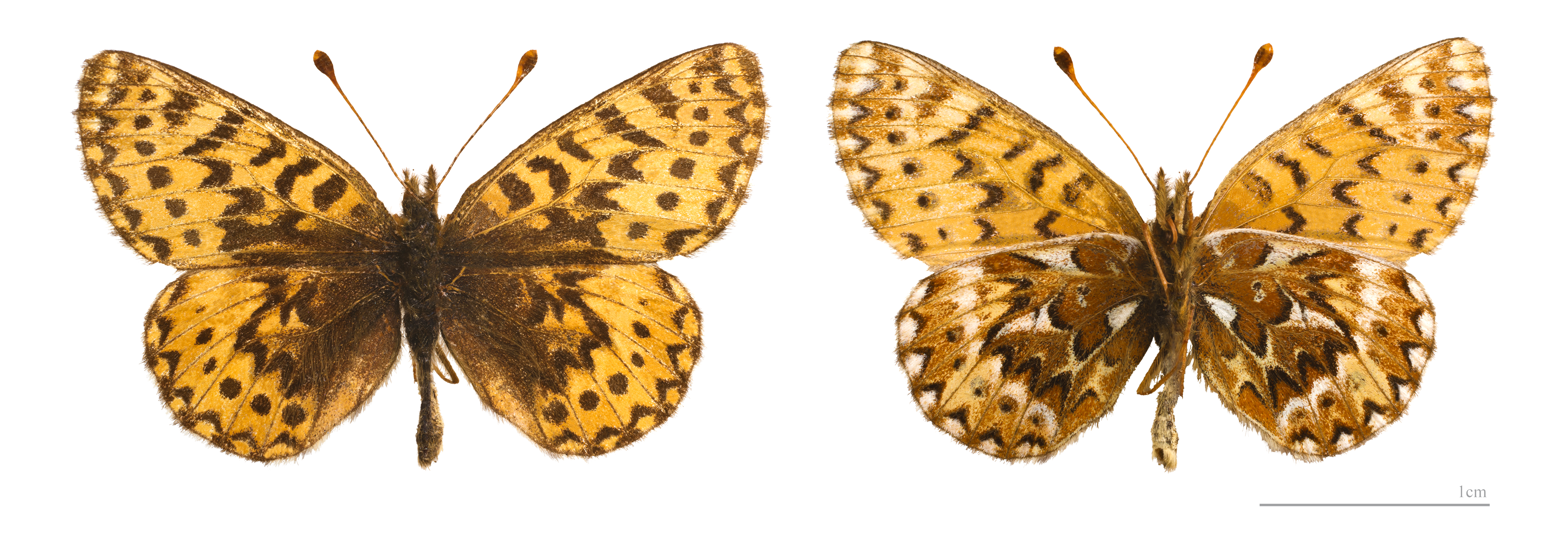 Freija Fritillary ♂ - Two views of same specimen Locality: Glacier National Park, Montana, USA